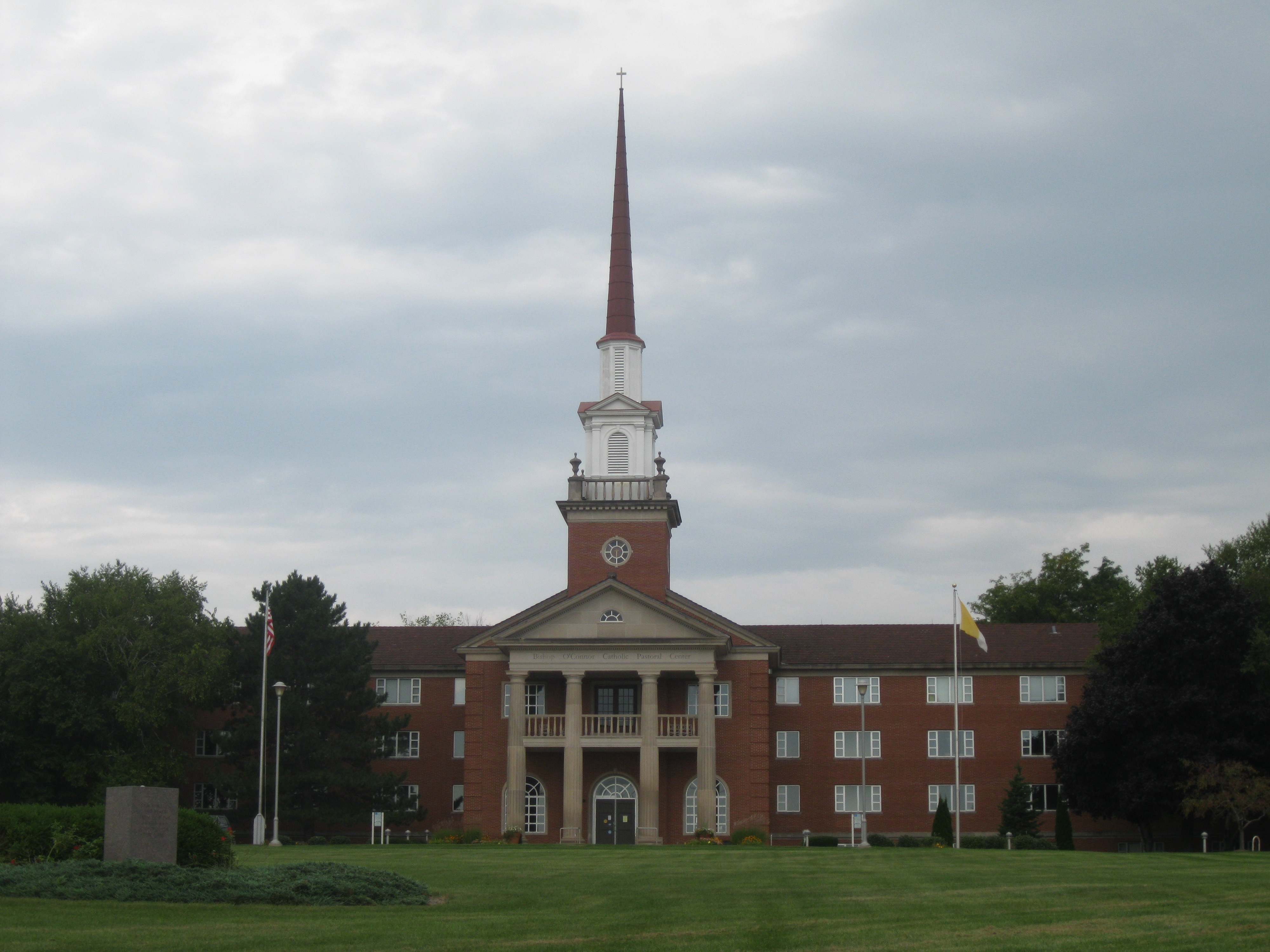 Holy Name Seminary, now the Bishop O'Connor Catholic Pastoral Center, in Madison, Wisconsin.